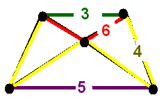 Runcitruncated_600-cell vertex figure